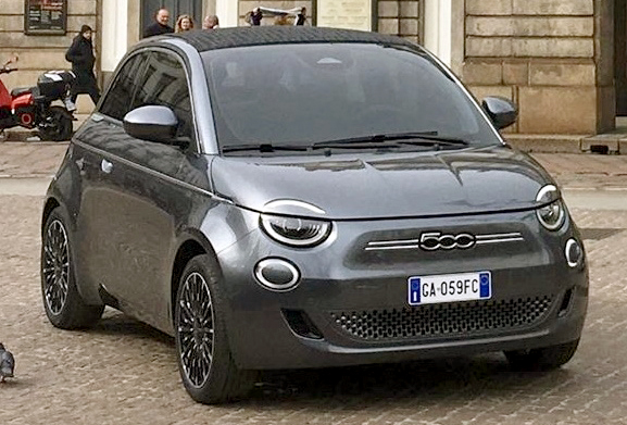 2020 Fiat 500e Cabrio EV